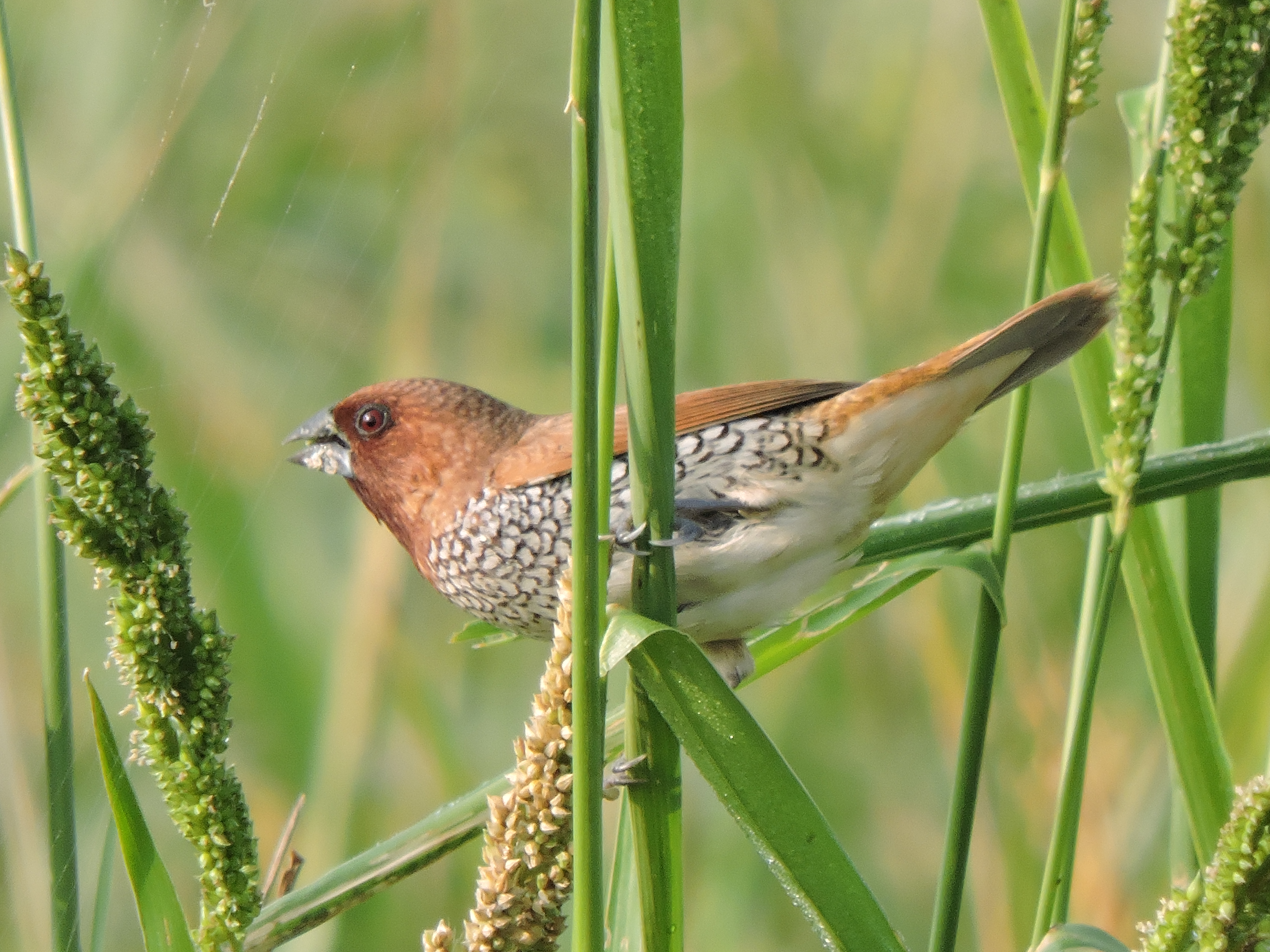 Scaly-breasted munia, Village Chapadchidi, Mohali, Punjab